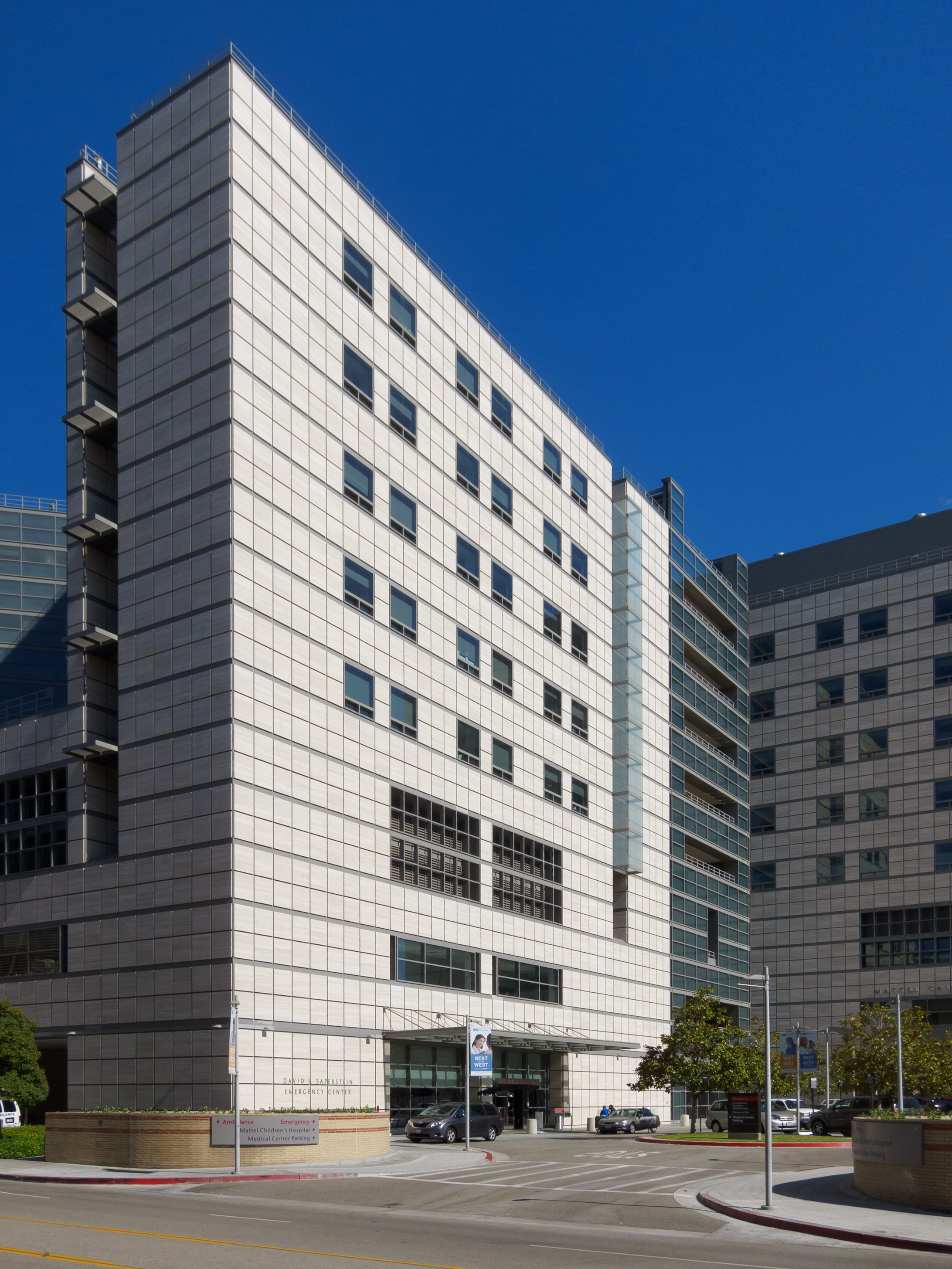 Ronald Reagan UCLA Medical Center on University of California campus.